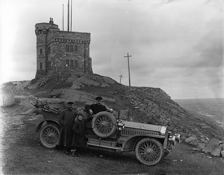 H.D. Reid's automobile at Cabot Tower, Signal Hill, St. John's, NL, 1908